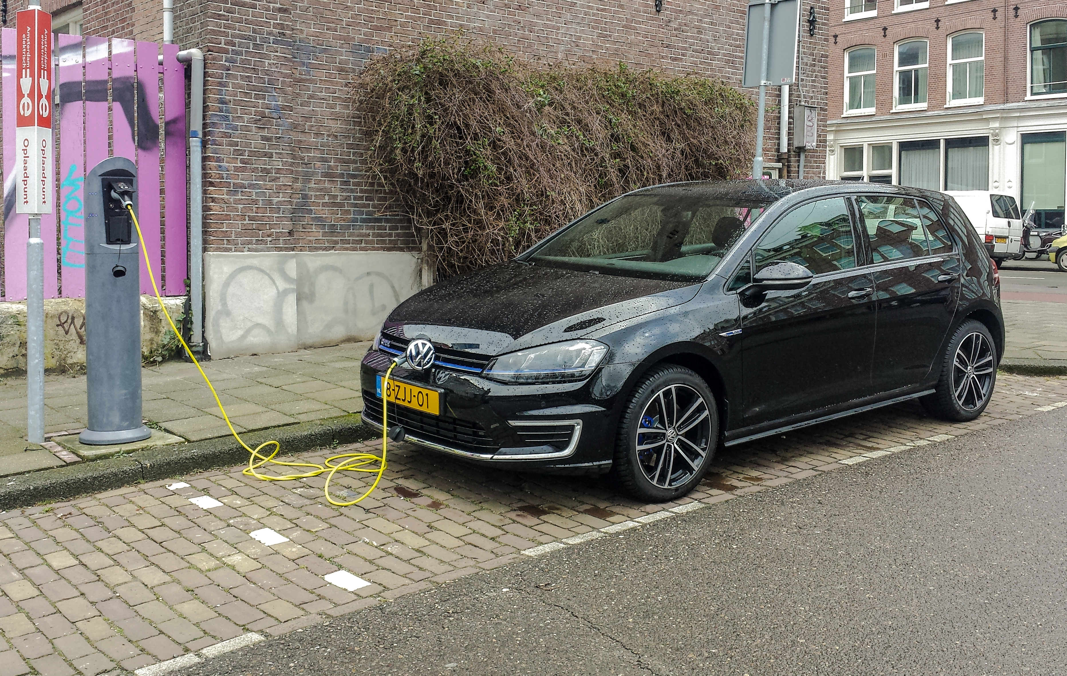 VW Golf GTE